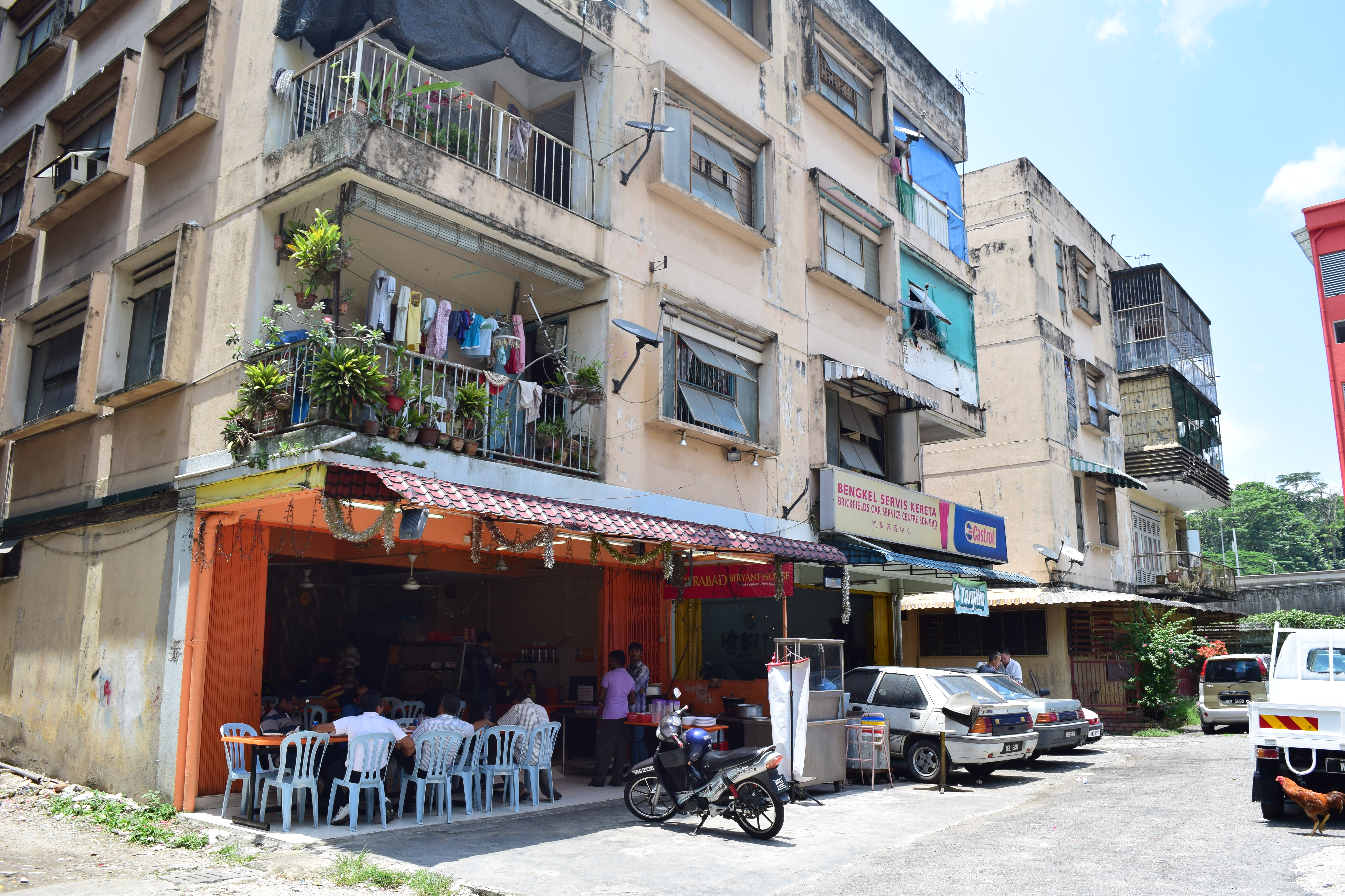 Front View of Marble Jade Mansion